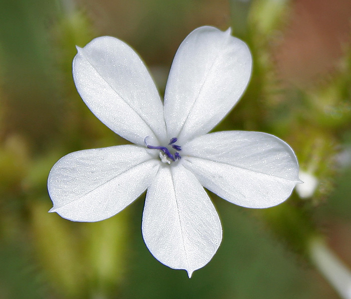 Plumbago zeylanica at Ananthagiri Hills, in Rangareddy district of Andhra Pradesh, India.